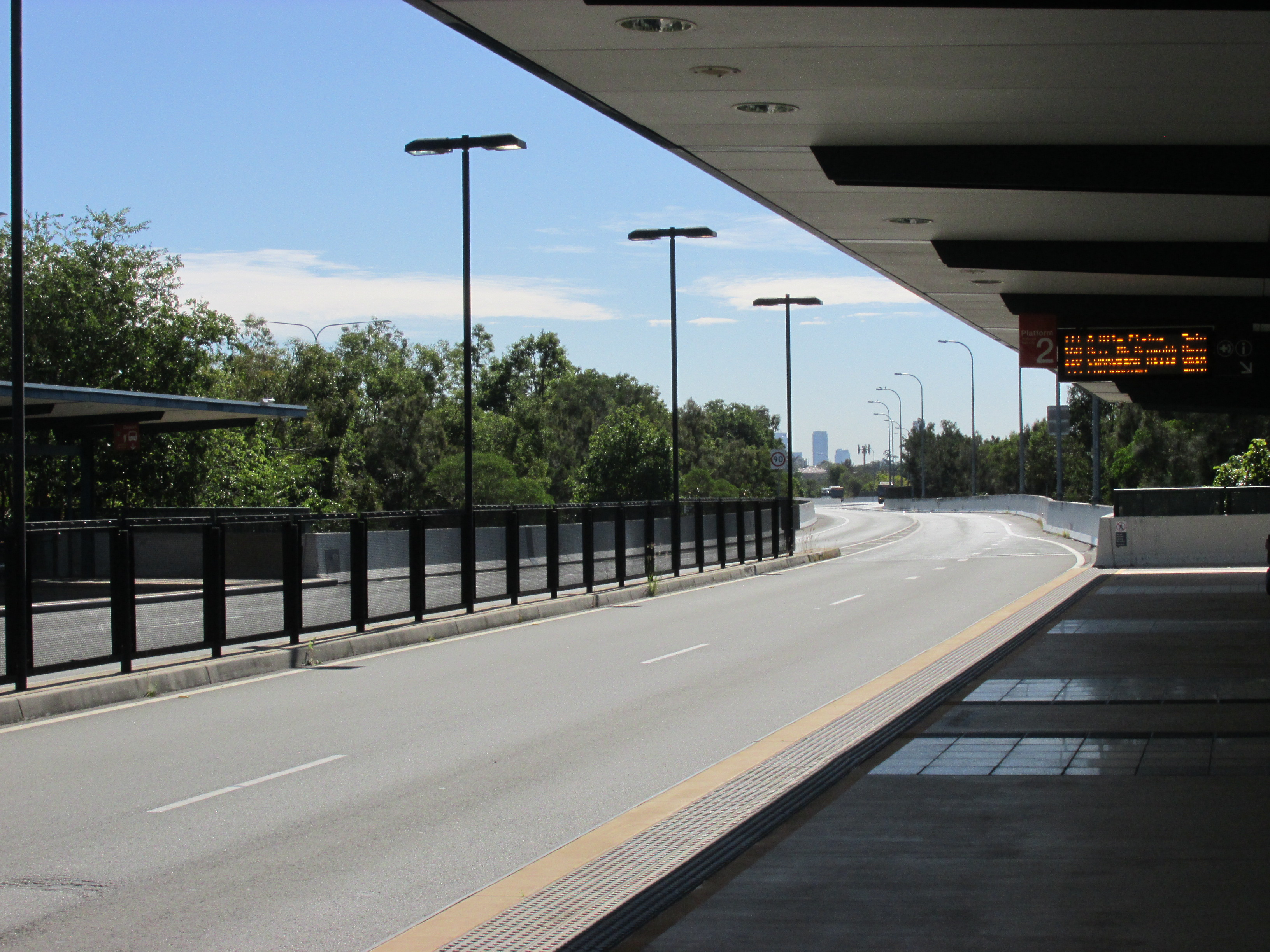 Platforms at Holland Park West busway station in Brisbane, Queensland.